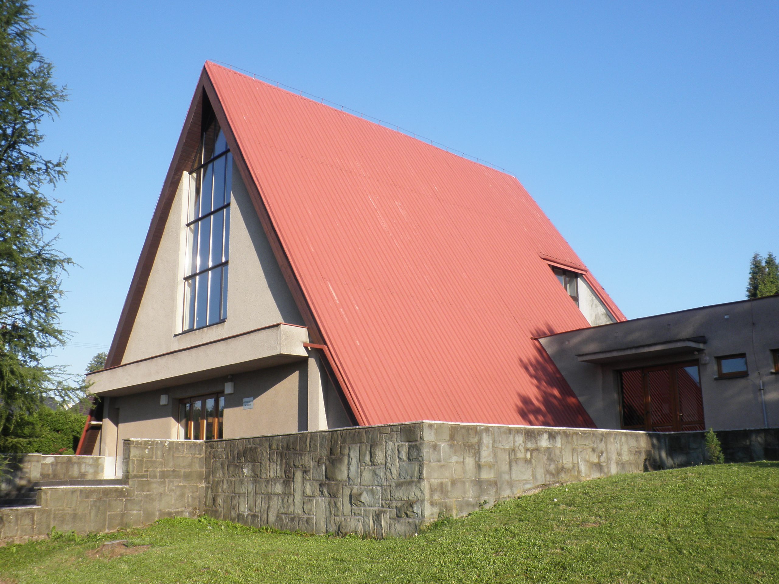 Church of the Apostolic Church (Pentecostal) in Třinec-Oldřichovice